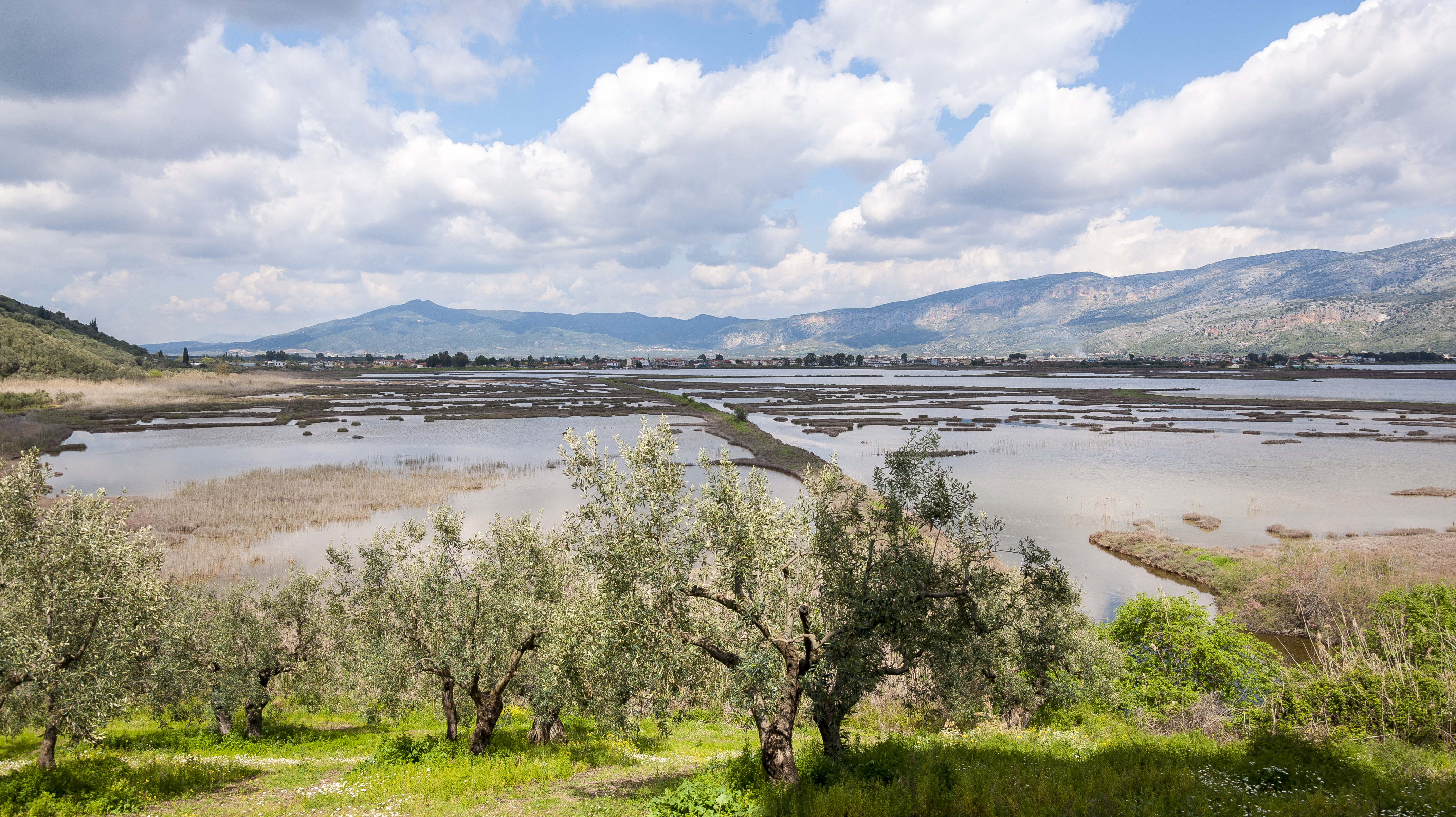 This is a photography of Natura 2000 protected area with ID GR2310015 Λιμνοθάλασσα Αιτωλικού